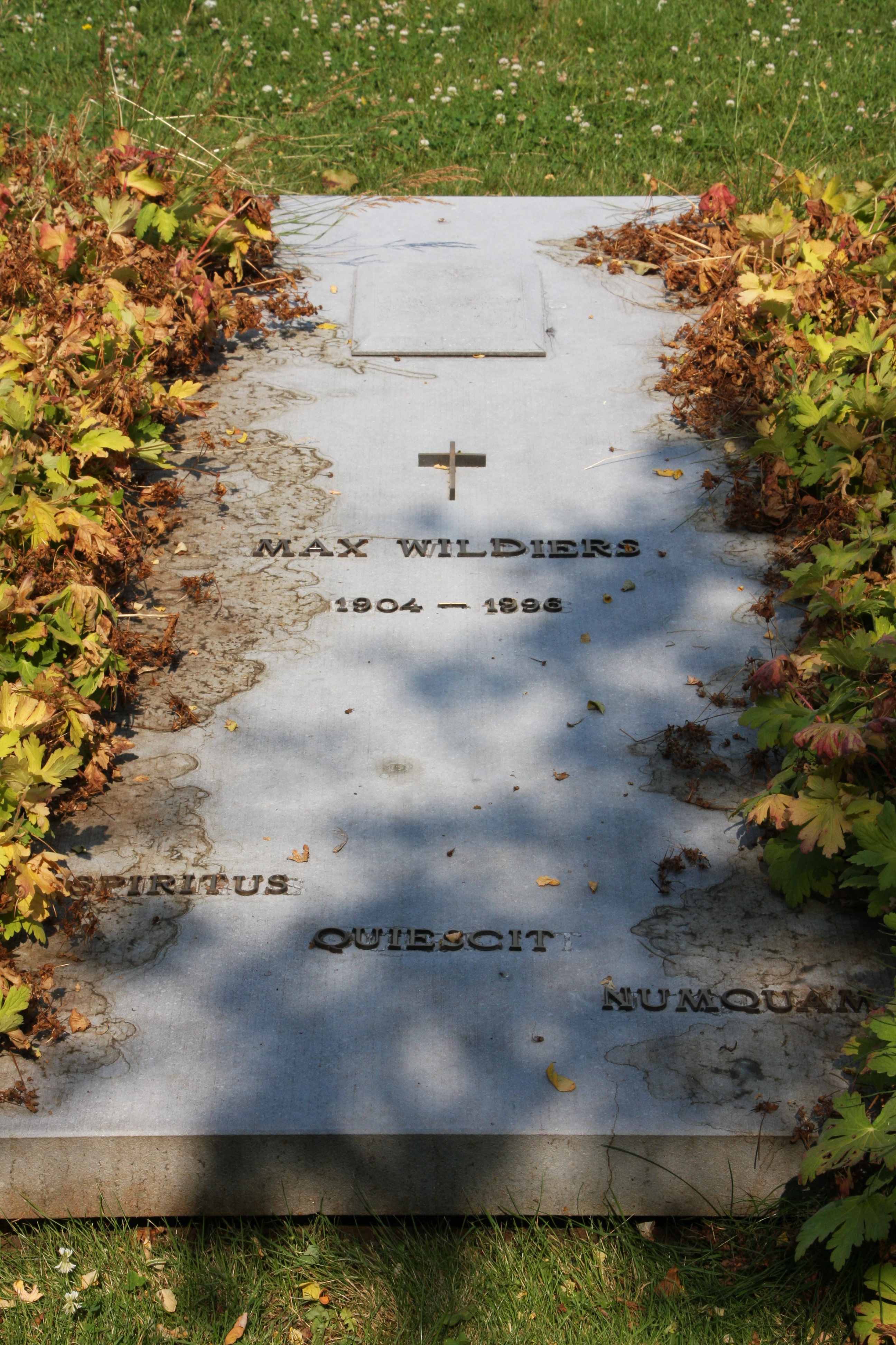 Picture taken on the graveyard of my parish